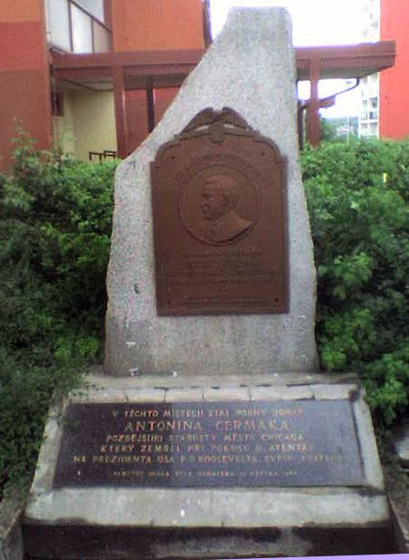 Little monument to Antonín (Anton) Čermák in Kladno. It is placed in the location where there used to be Cermak's family house; now there are blocks of flats all around that area. American eagle in the top and "I'm glad it was me instead of you." below it